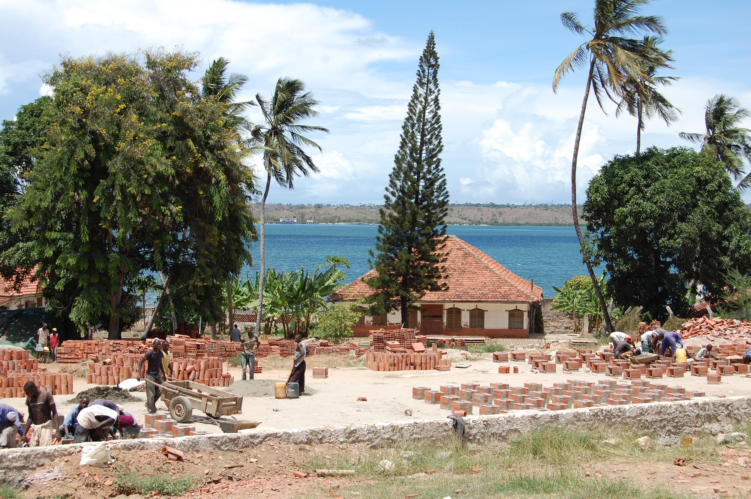 CO2balance_Stoves